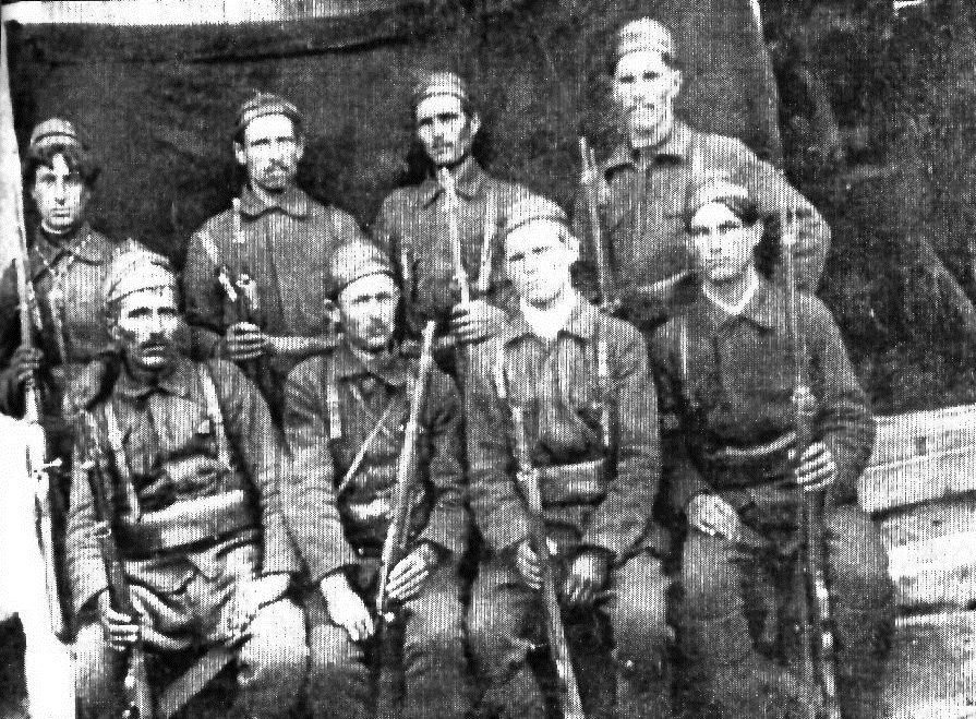 IMRO cheta of Krupnik